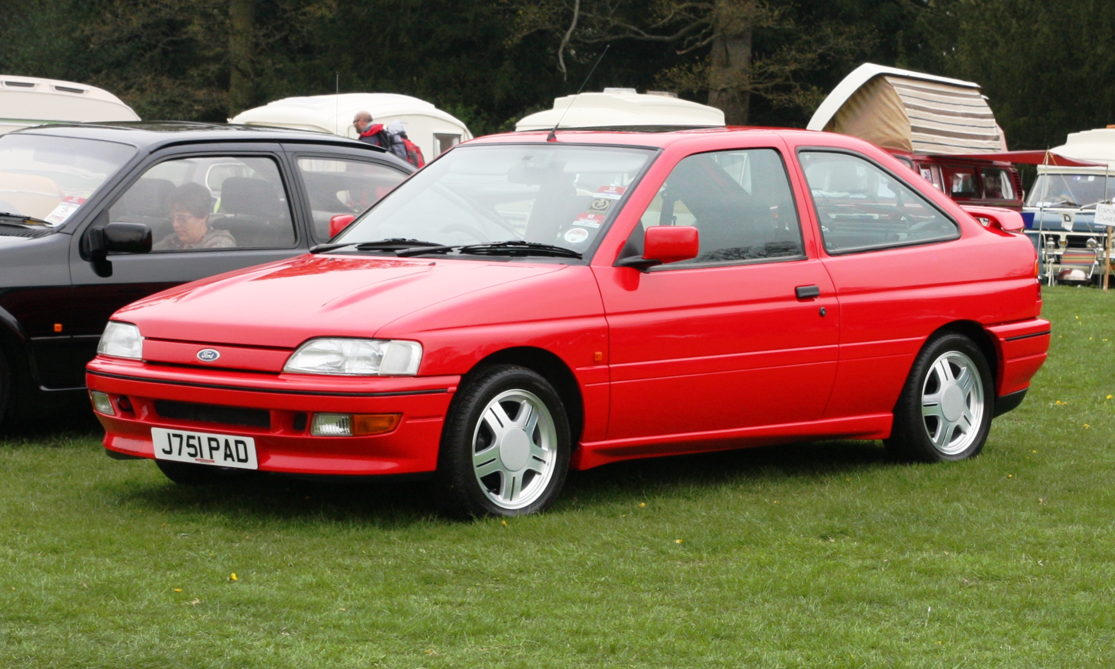 Ford Escort RS2000 (1992)